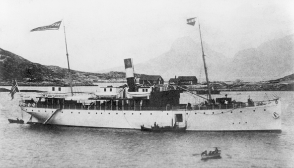 DS (Steamship) Vesteraalen, the first coastal steamer in hurtigruten, Norway. Photo taken near Bodø during the first sailing as coastal steamer in 1893.